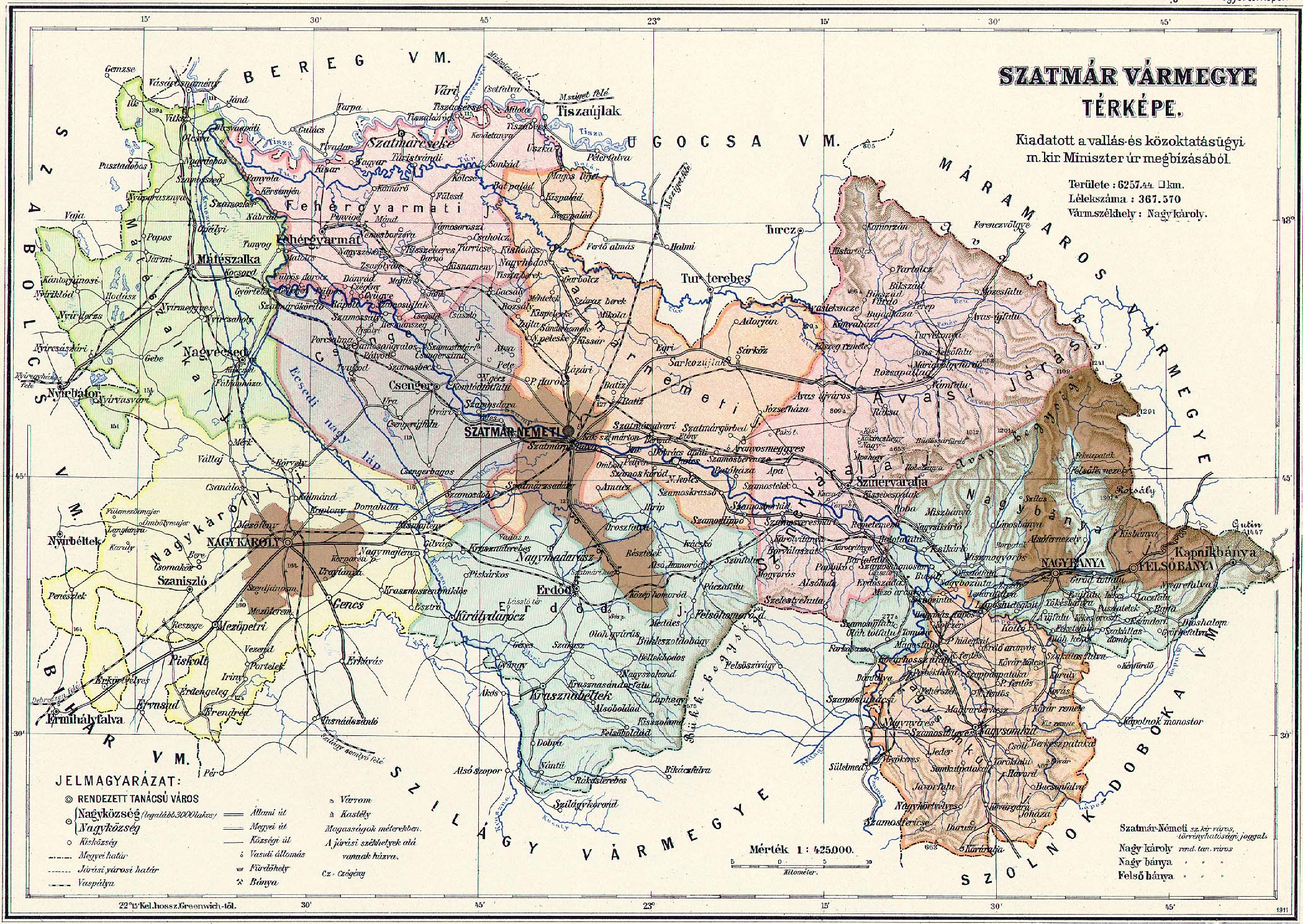 Administrative map of the county of Szatmár in the Kingdom of Hungary